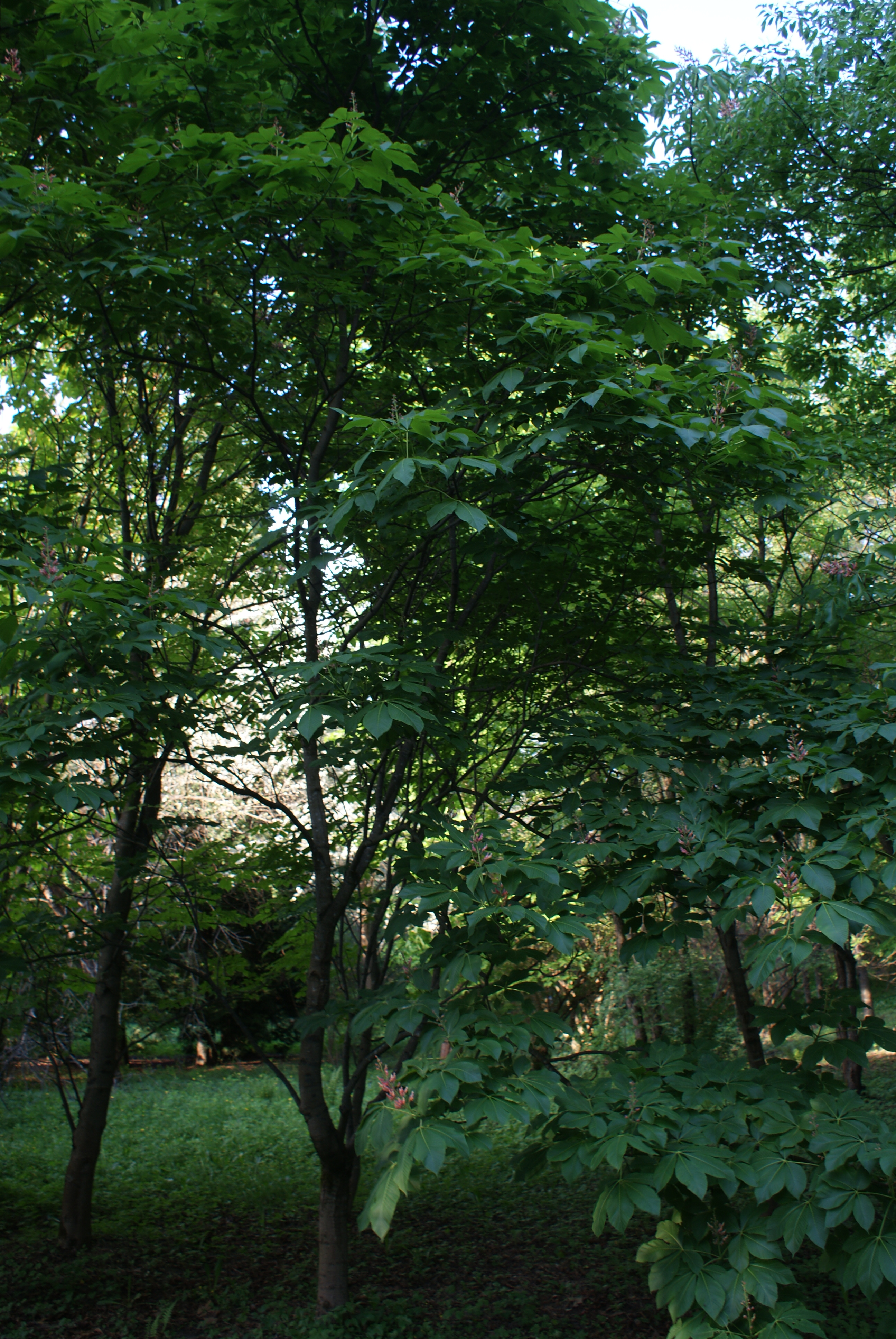 Aesculus flava in Botanical garden, Minsk